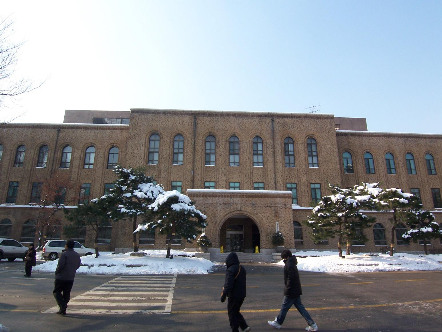 College of Medicine, Seoul National University (Yeongeon-dong, Jongno-gu, Seoul, Korea)